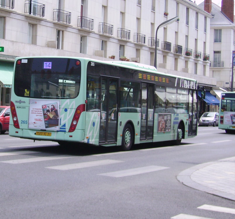 Van Hool A330 bus (#265) in Tours, France. Built 2004, Fil Bleu Tours operator.